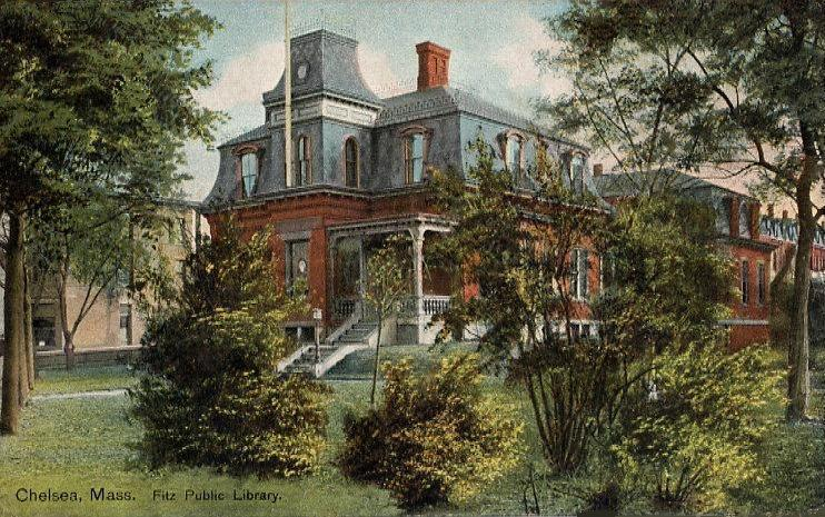 The Fitz Public Library, Chelsea, MA; from a c. 1905 postcard published by the Hugh C. Leighton Company, Portland, Maine. Donated by Eustace C. Fitz, it was built in 1885, but destroyed in the Great Chelsea Fire of 1908.